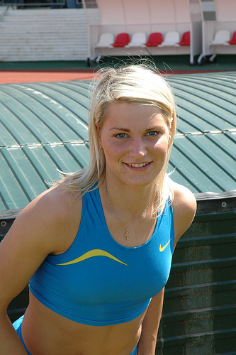 Svetlana Bolshakova Profile Photo